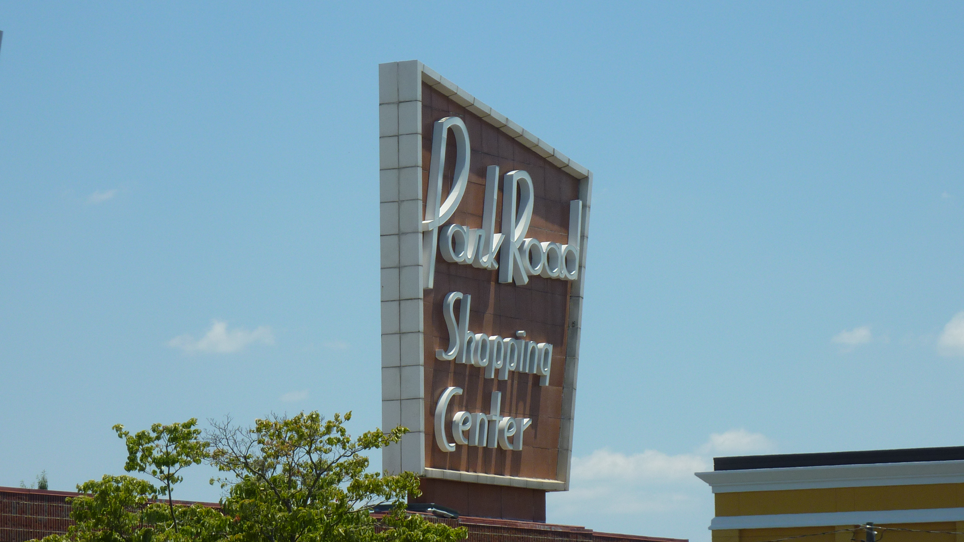 Photo of Park Road Shopping Center sign in Charlotte, NC